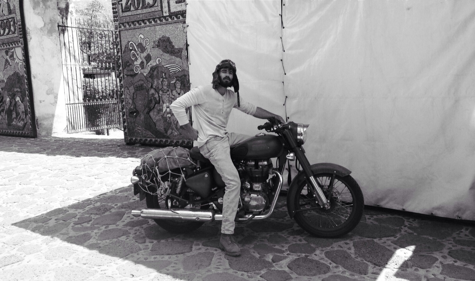 angus on a bike photo